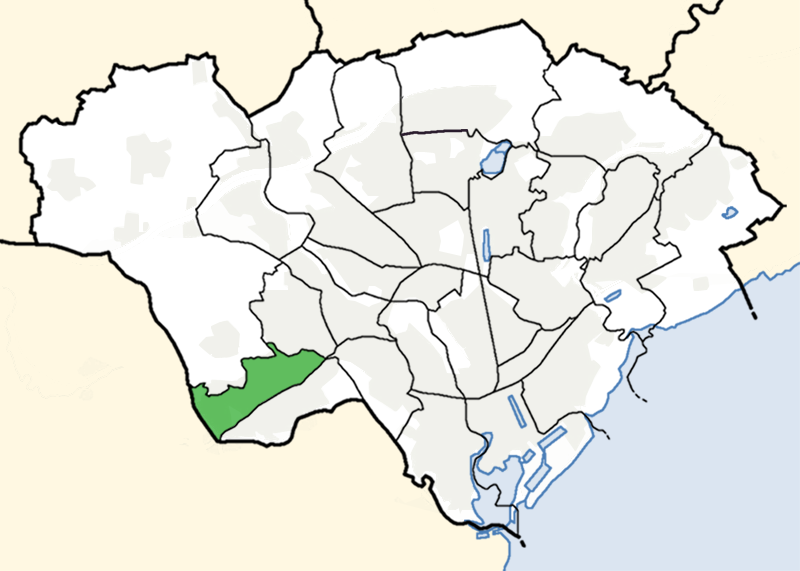 Location map showing electoral ward of Ely within Cardiff, Wales